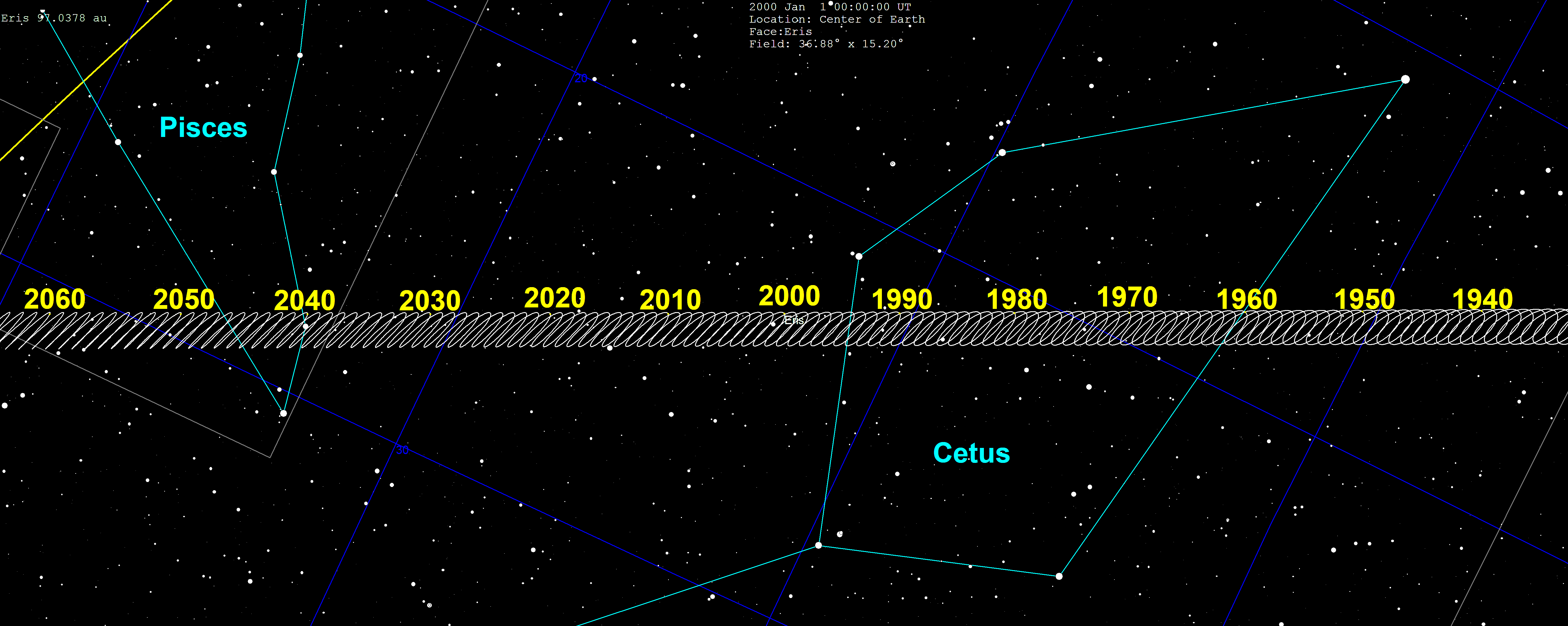 Eris (dwarf planet) retrograde loops in sky from earth, from 1940 to 2060